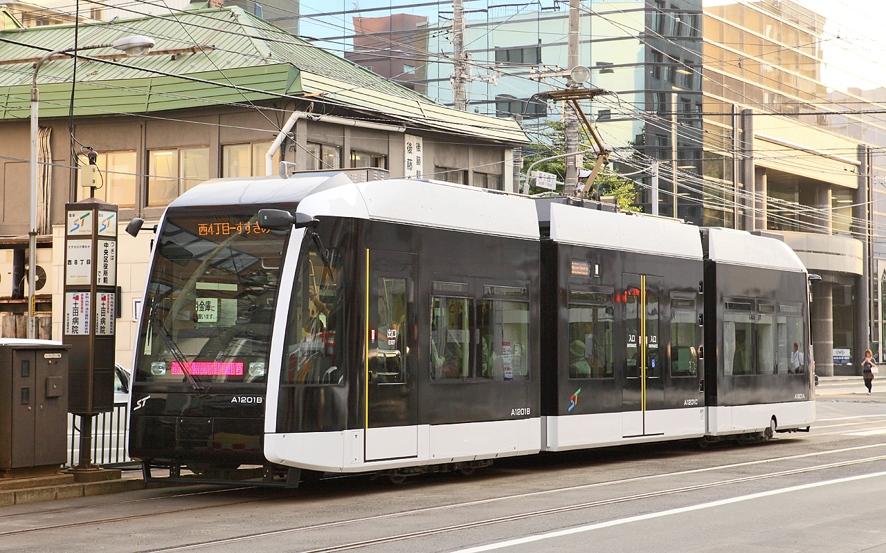 Sapporo Street Car Type A1200 (Nishi Hatchōme)